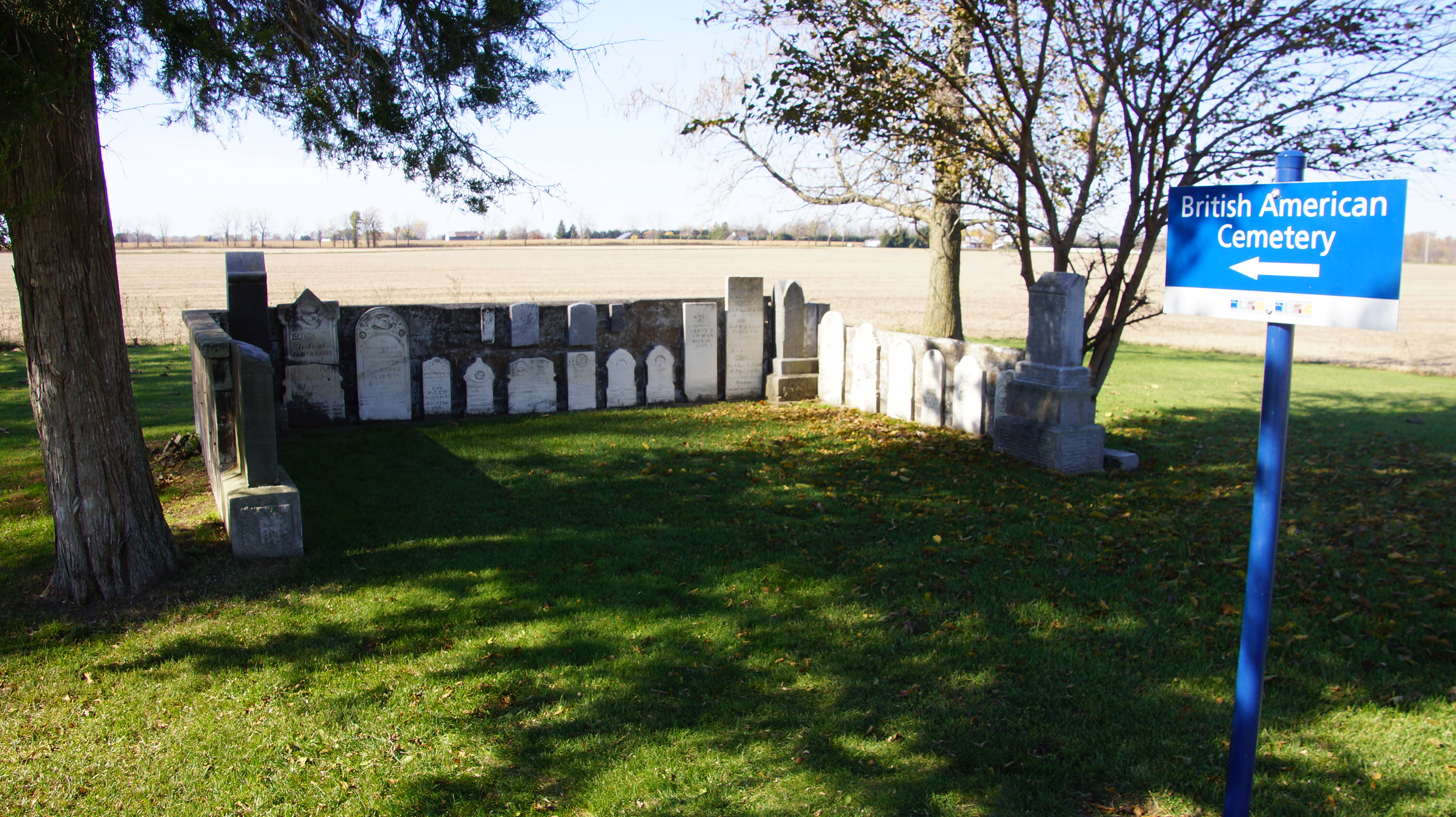 Uncle Tom's Cabin Historic Site is an open air museum and African American history centre near Dresden, Ontario, Canada, that includes the home of Josiah Henson, a former slave, author, abolitionist, and minister, who, through his 1849 autobiography The Life of Josiah Henson, Formerly a Slave, Now an Inhabitant of Canada, as Narrated by Himself, was the inspiration for Harriet Beecher Stowe's title character in her novel Uncle Tom's Cabin.The 5-acre (20,000 m²) complex is part of the original 200 acres (0.81 km²) of land purchased in 1841 to establish the Dawn Settlement, a community for escaped slaves.